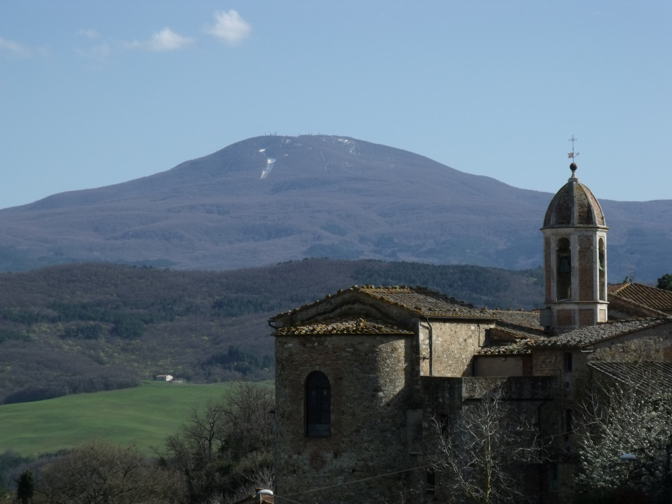 Backside of the Church / Pieve dei Santi Stefano e Degna in Castiglione d’Orcia, Val d’Orcia, Province of Siena, Tuscany, Italy (in the Background the Monte Amiata)